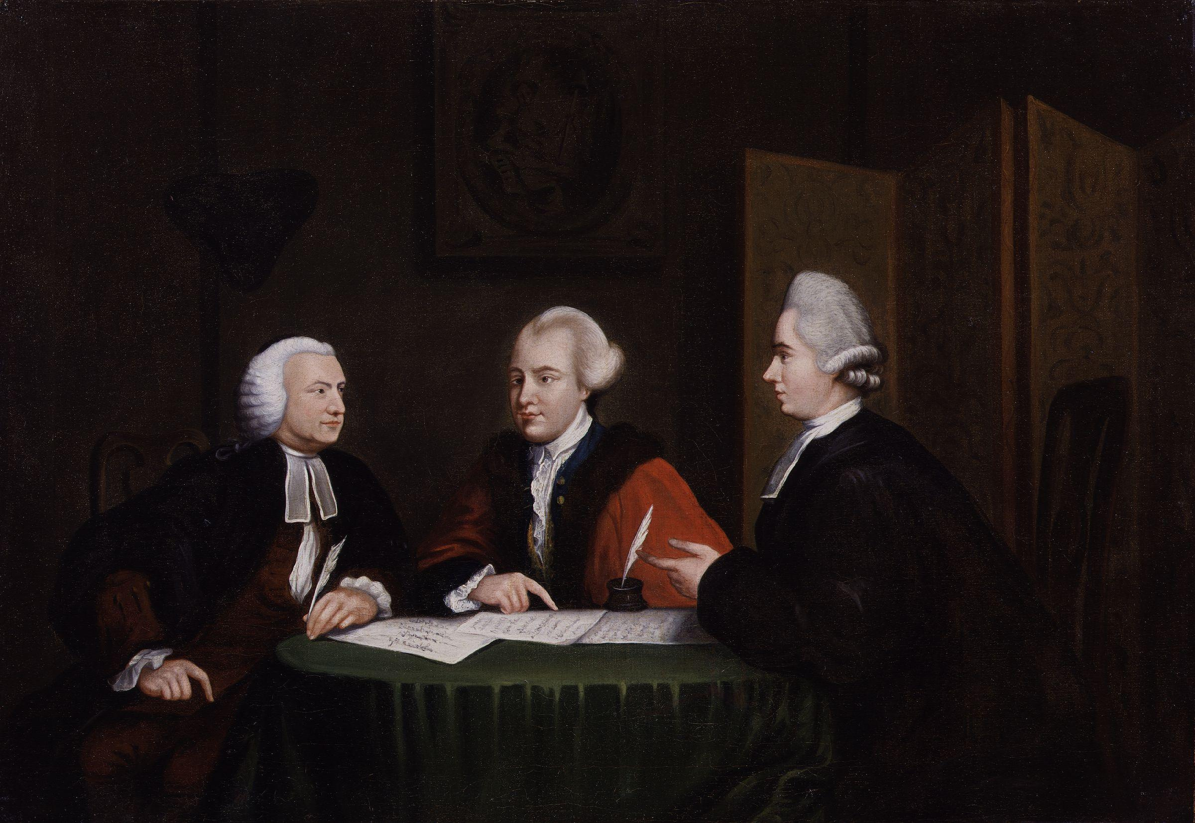 John Glynn, John Wilkes and John Horne Tooke, after Richard Houston (died 1775), given to the National Portrait Gallery, London in 1922. From left to right: John Glynn, John Wilkes, John Horne Tooke. All images in this batch have been confirmed as author died before 1939 according to the official death date listed by the NPG.